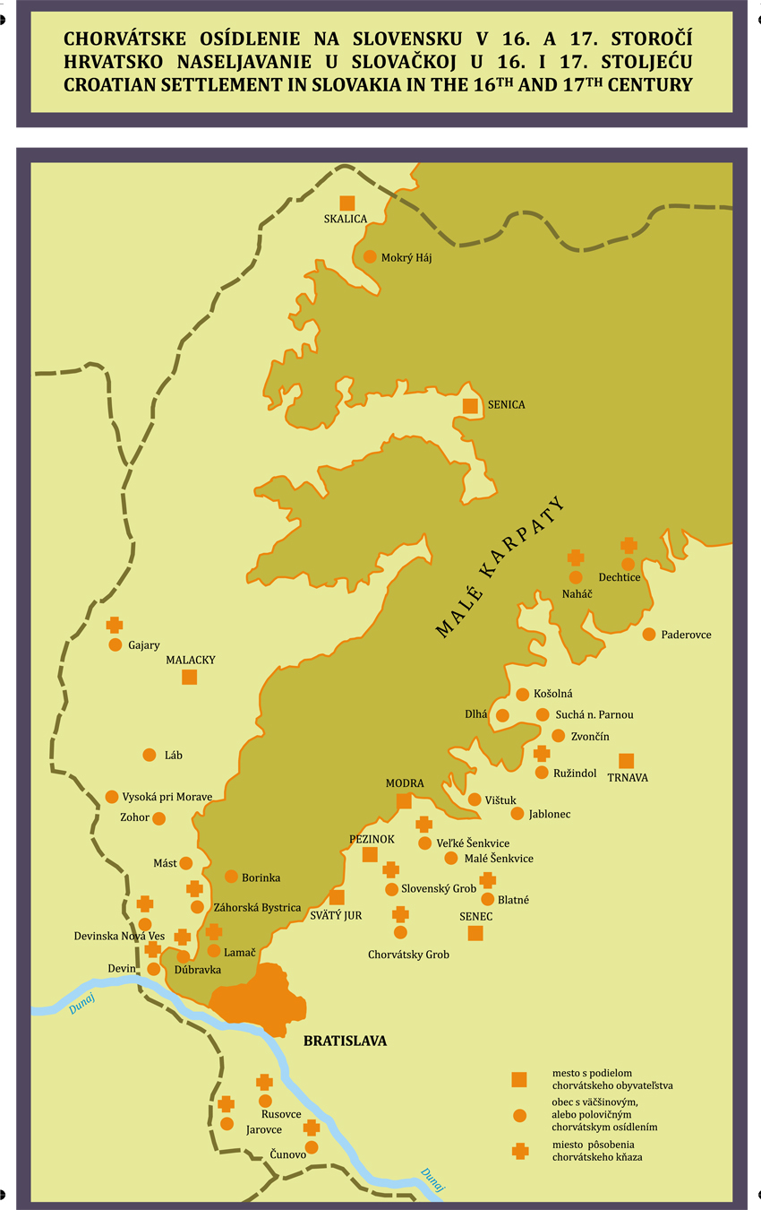 Croatian settlement in Slovakia in the past.